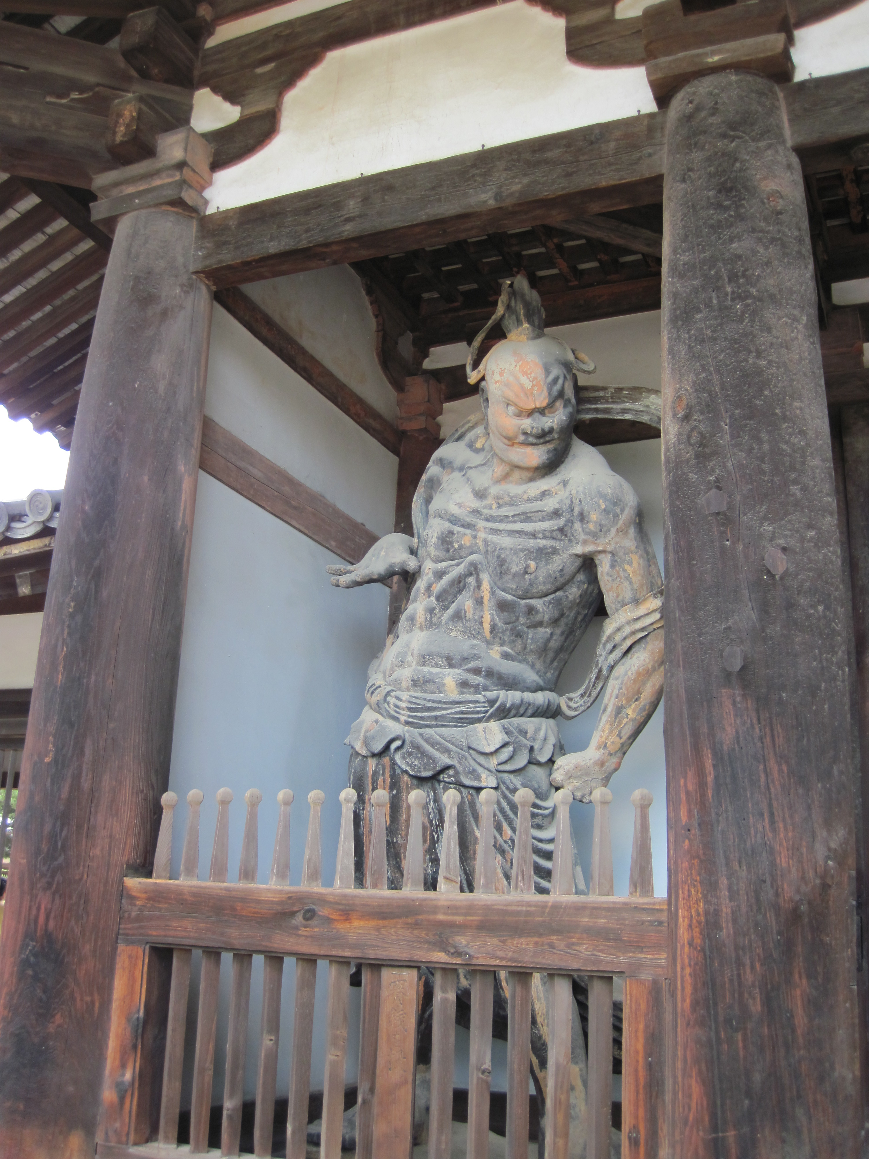 Horyu-ji National Treasure World heritage 国宝・世界遺産法隆寺